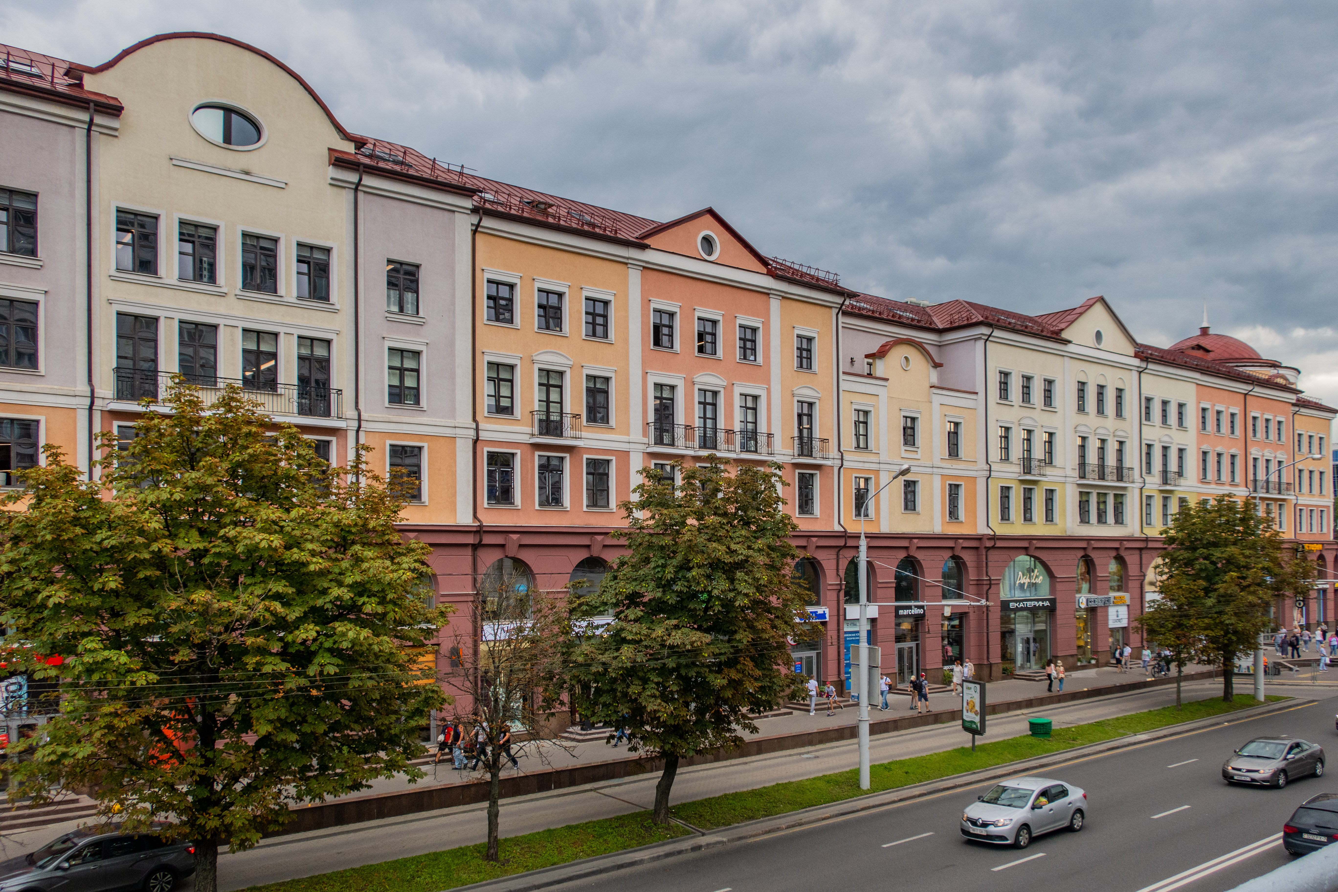 Pseudo-historical remake of Niamhia street. Minsk, Belarus